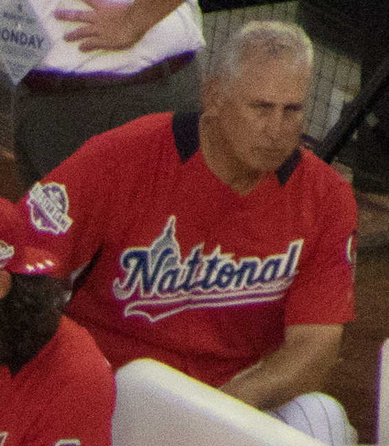 Members of the 2018 National League All-Star Team during the 2018 Major League Baseball Home Run Derby at Nationals Park.